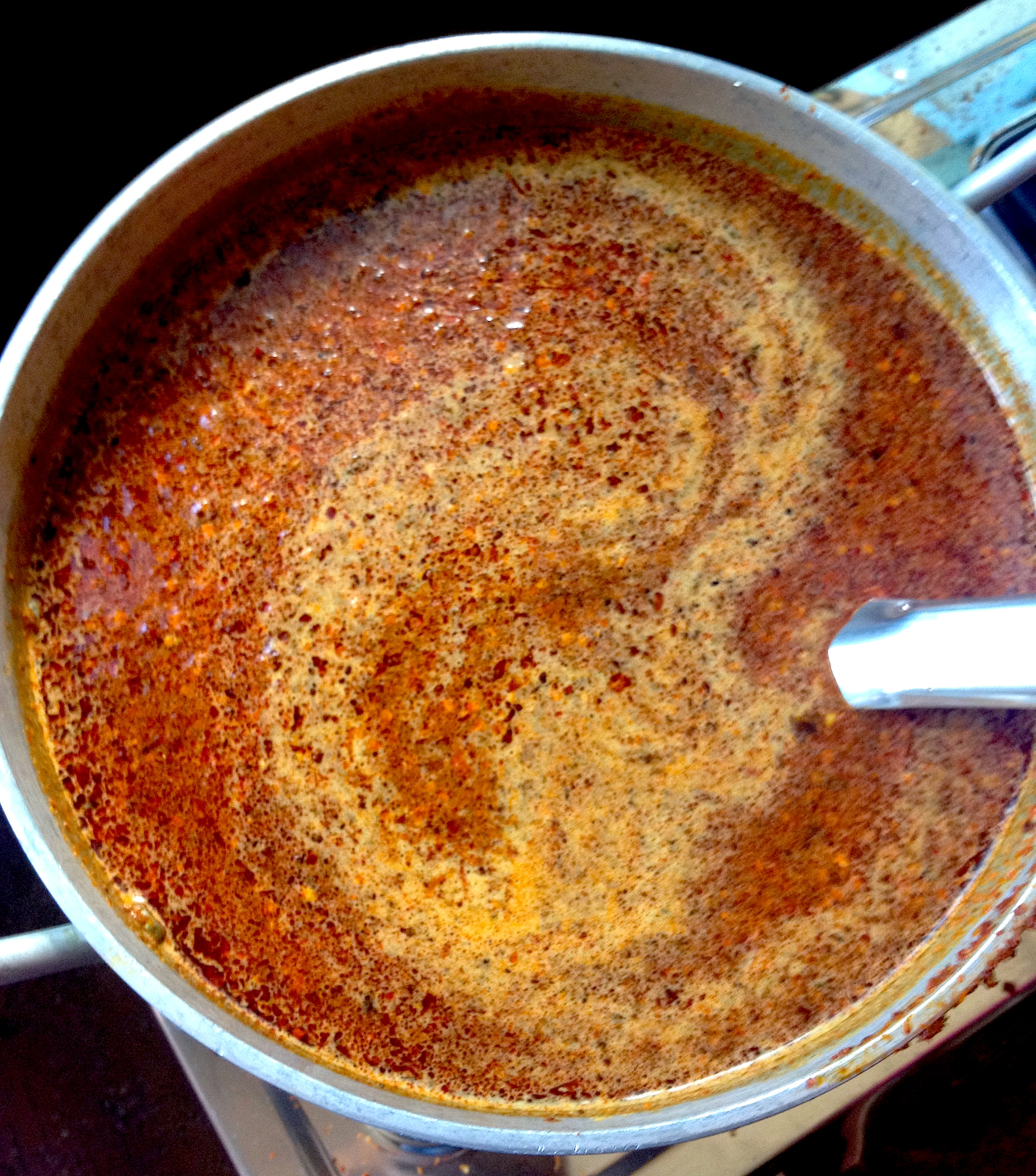 Chamba Chukh preparation @ a workshop with a Women's Self Help Group in Chamba, Himachal Pradesh, India.